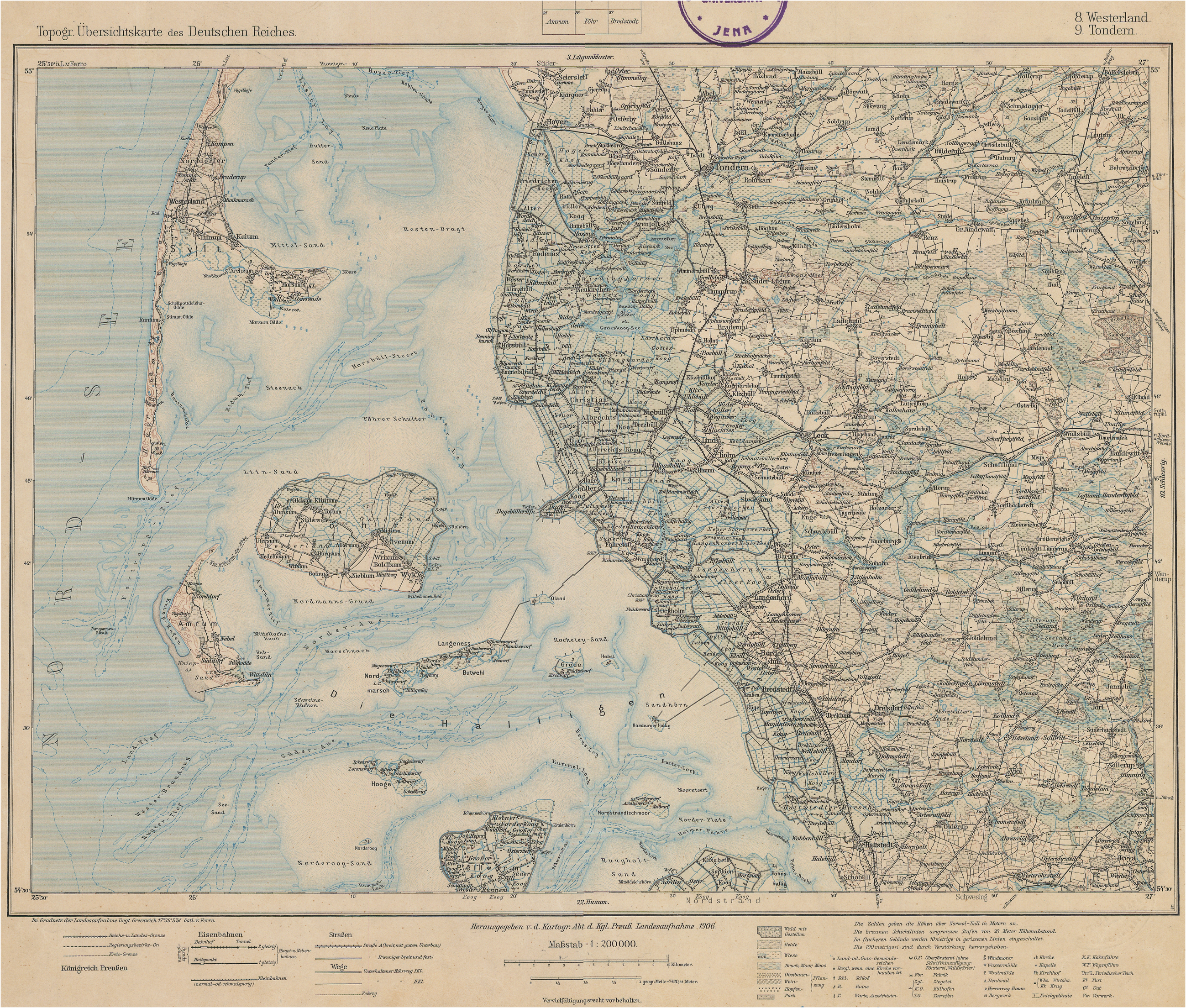 mapsheet 08/09 "Westerland-Tondern" of "Topographische Übersichtskarte des Deutschen Reiches" 1:200,000